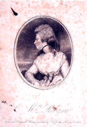 Portrait of Mary Robinson (1758-1800). Frontispiece from her Poems. 1st ed. London: J. Bell, 1791.